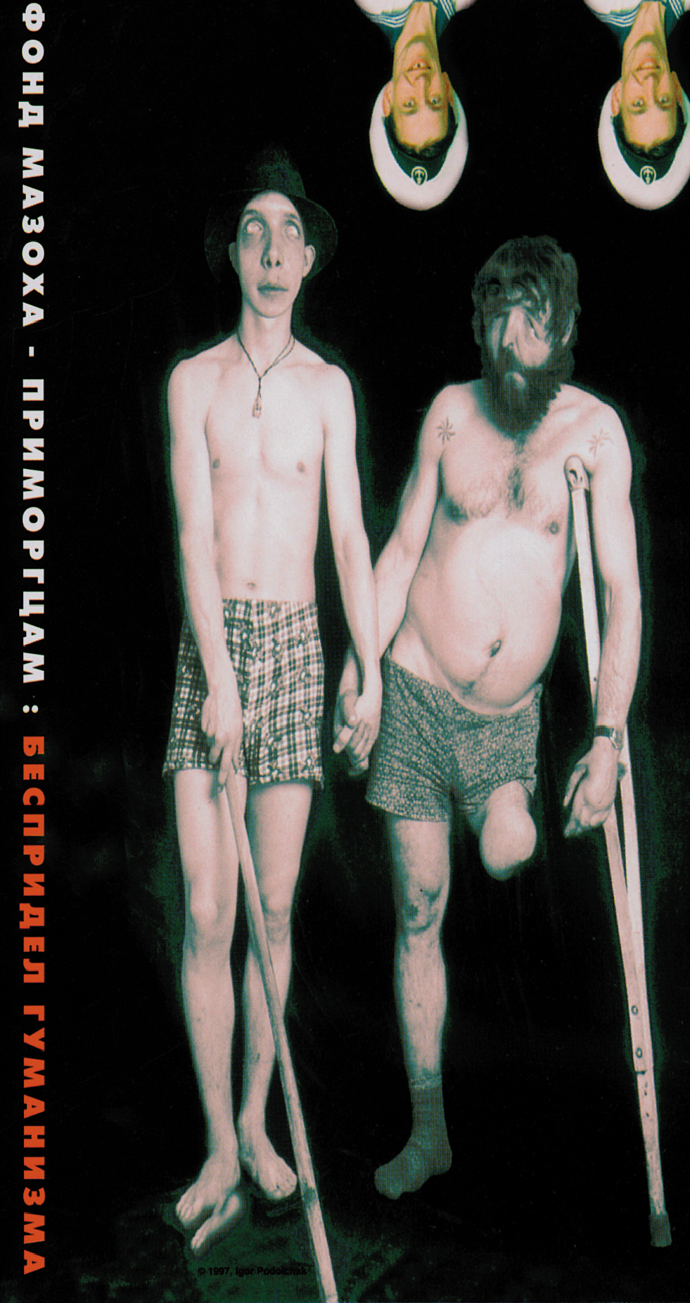 Ticket for Masoch Fund's art project " Unlimited Humanism", Vladivostok, Russia, 1997